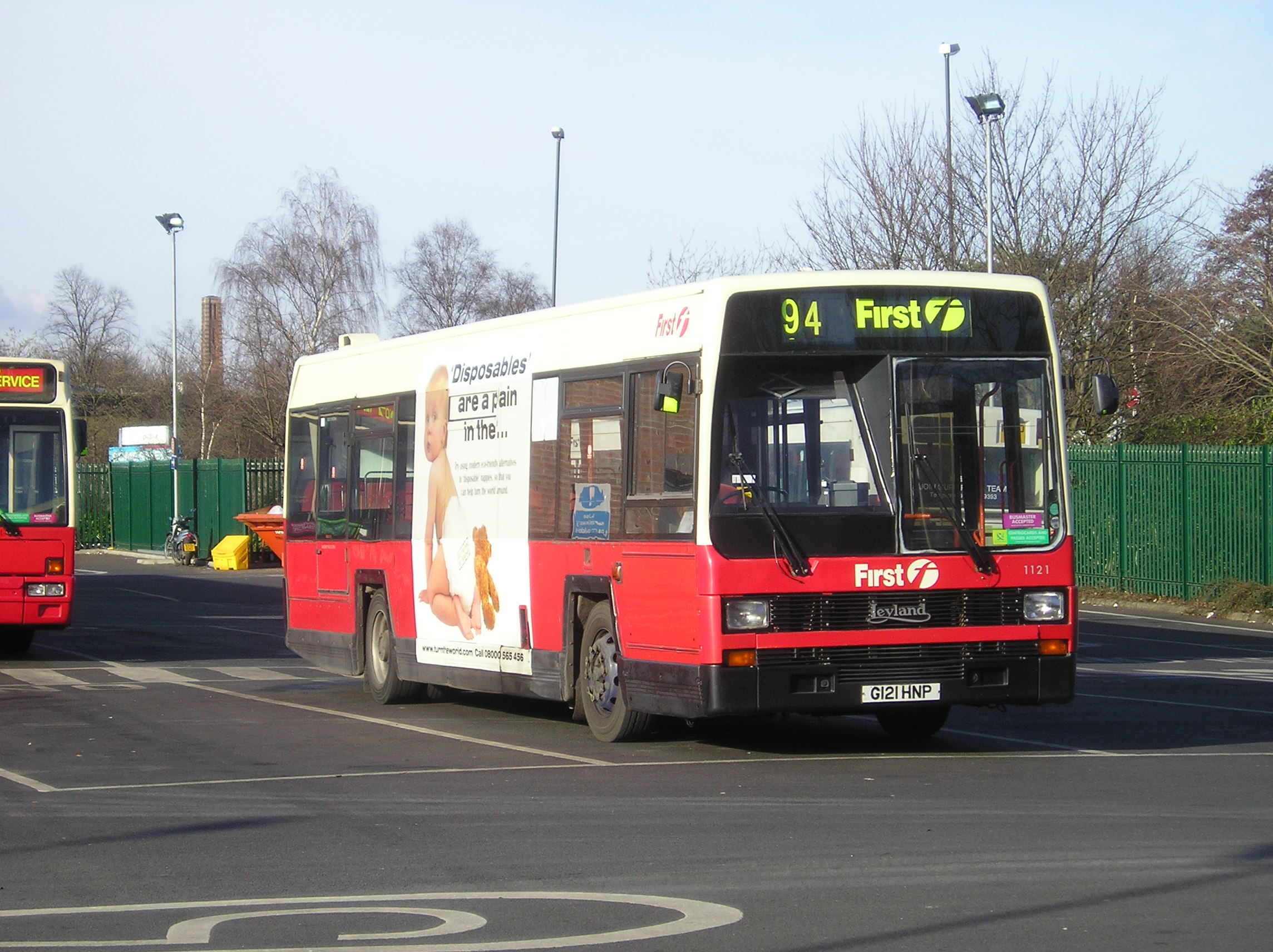 First Midland Red's 1121 (G121 HNP), a Leyland Lynx, in Kidderminster depot.